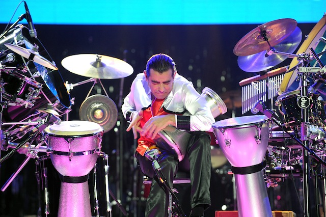 Casino Du Liban December- 2012 Rony Barrak